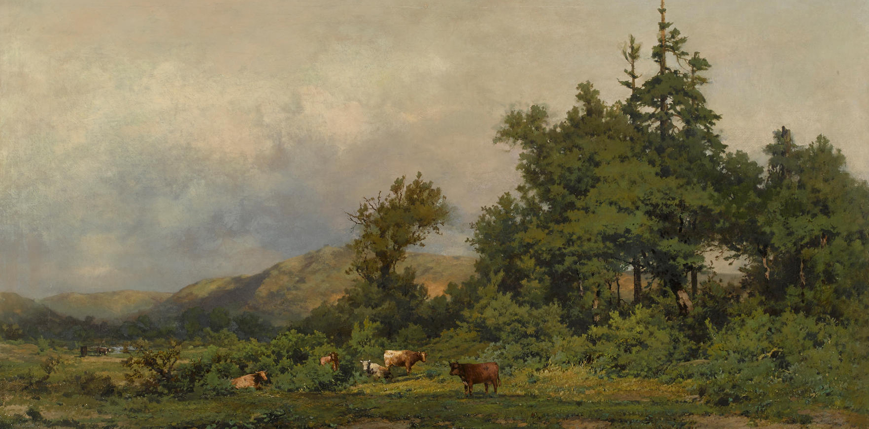 Cows grazing